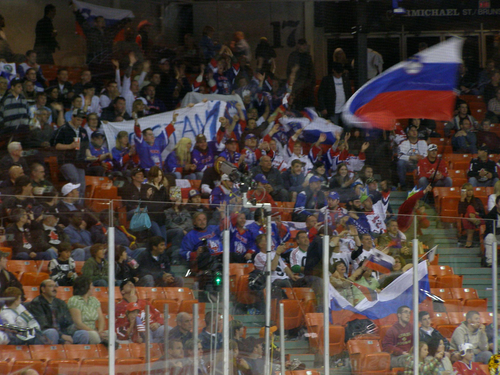 Slovenia VS USA (IIHF World Hockey Championship in Halifax NS, May 4 2008)